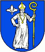 Malý Cetín (Hungarian: Kiscétény) is a village and municipality in the Nitra District in western central Slovakia, in the Nitra Region.